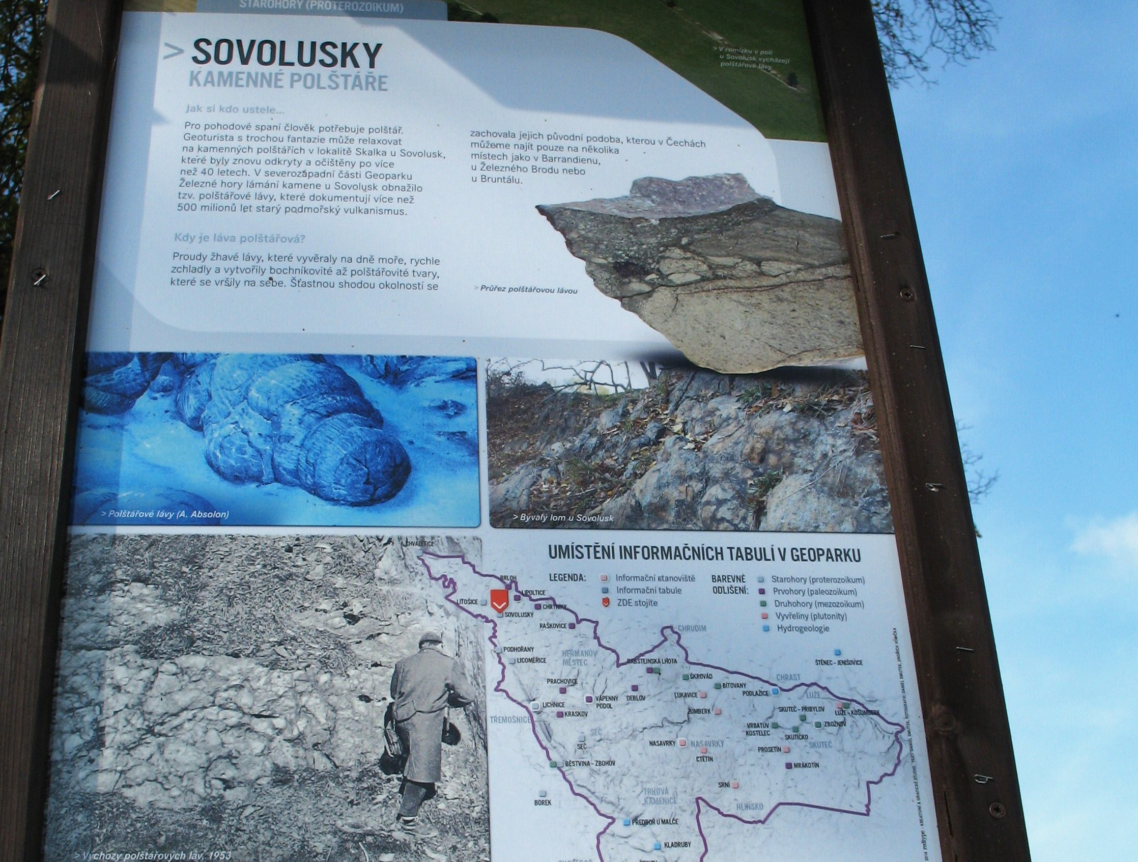 Information about Pillow lava in Geopark Zelezne hory, Czech Republic